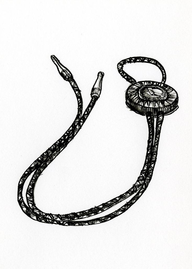 Drawing of the Thesaurus concept : 'bolo tie'. Neckties of thin cord fastened in front with an ornamental clasp or other device. (AAT)